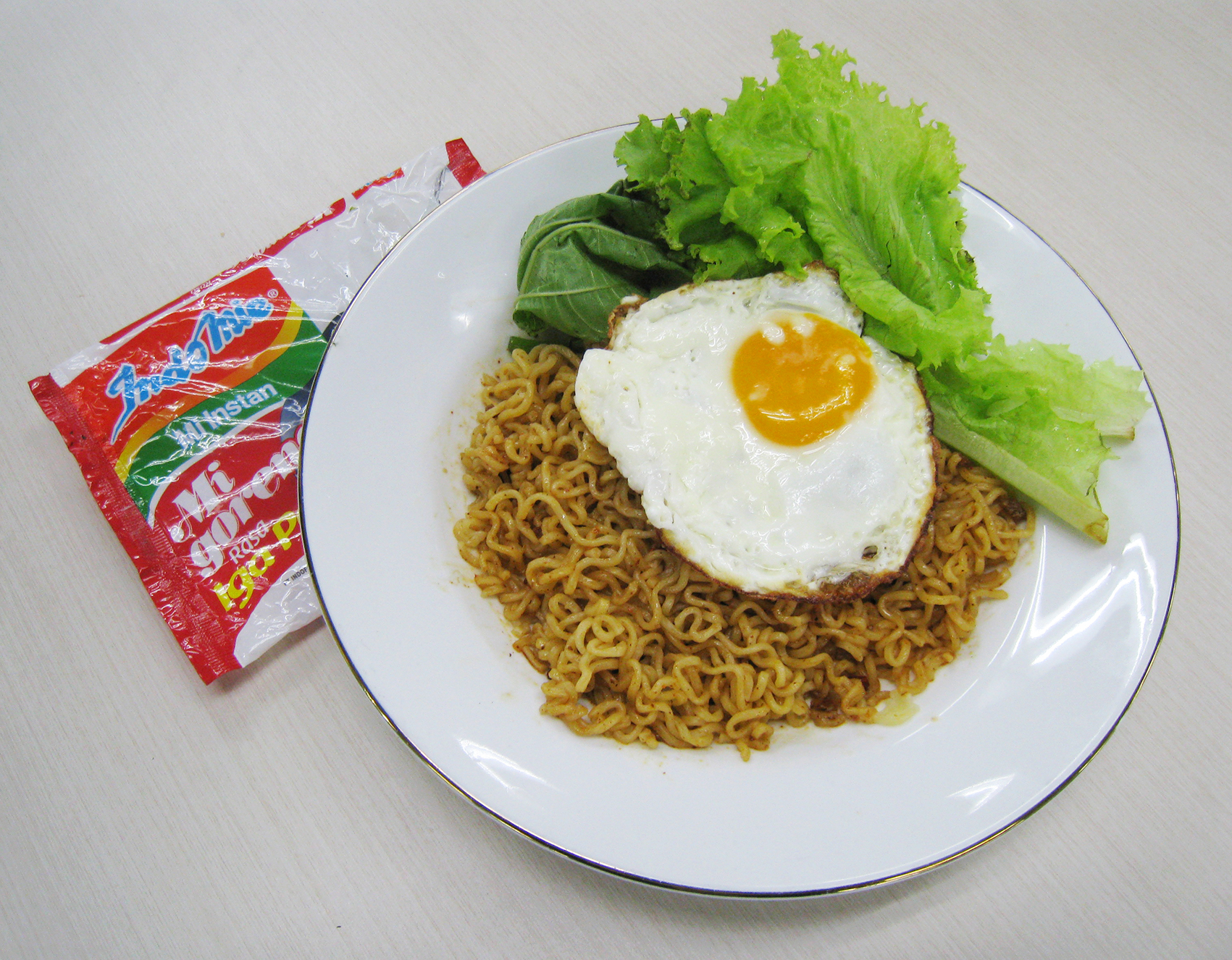 Indomie Mie Goreng Iga Penyet (squeezed rib) flavour. Indomie brand instant noodle, mie goreng (fried noodle), served with fried egg and vegetables. Served in Jakarta, Indonesia.